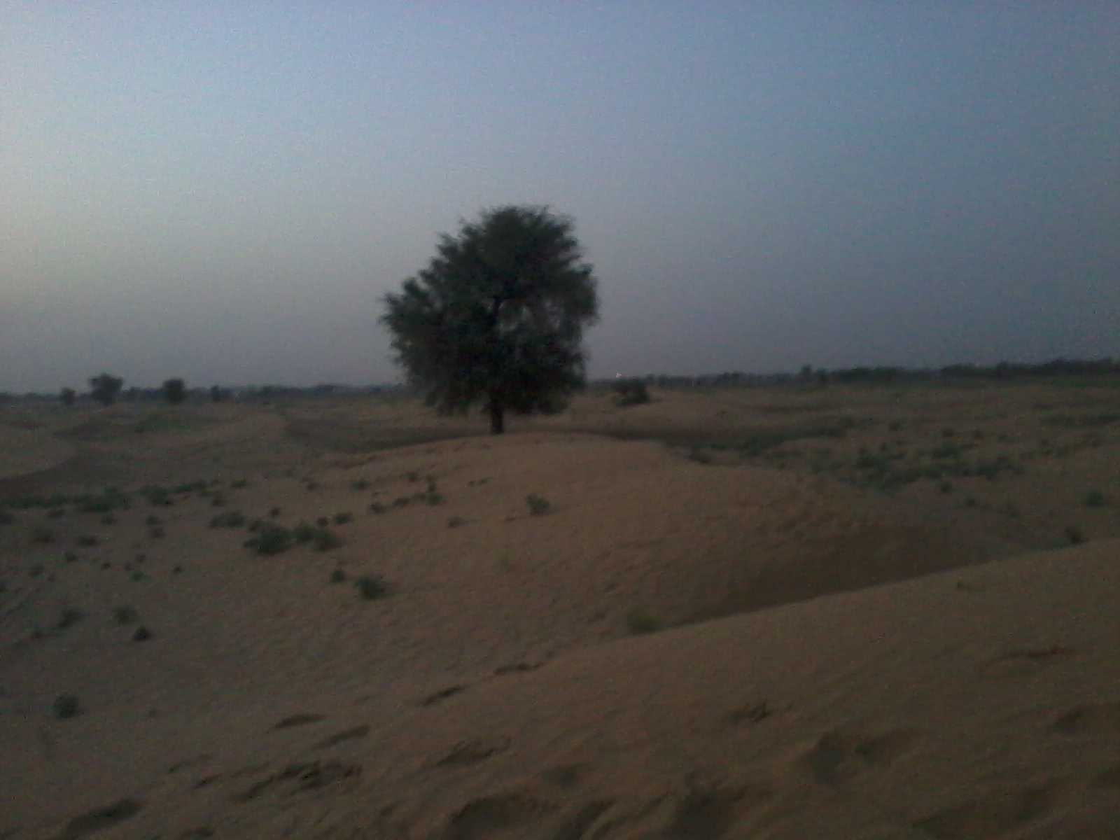 Some part of this area is still desert.